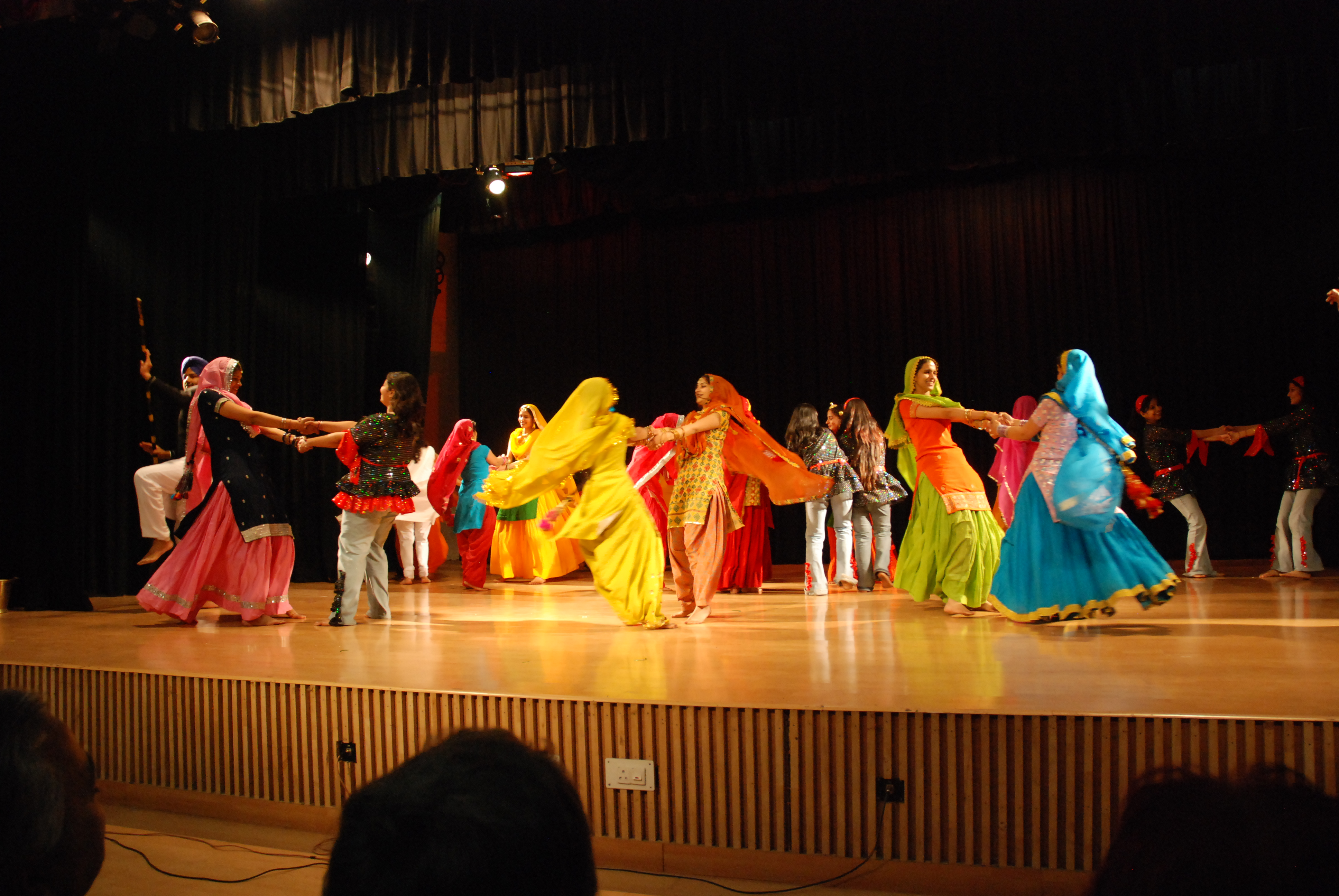 Punjabi folk Dance